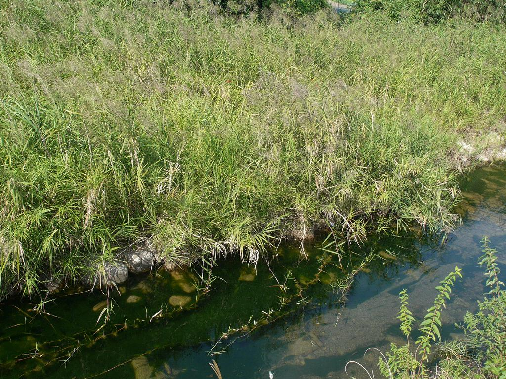 Phragmites japonica(Poaceae) Japanese name:Turuyosi：ツルヨシ Date: 2009-10-11, Tanabe City, Wakayama prefecture, Japan Author: Keisotyo